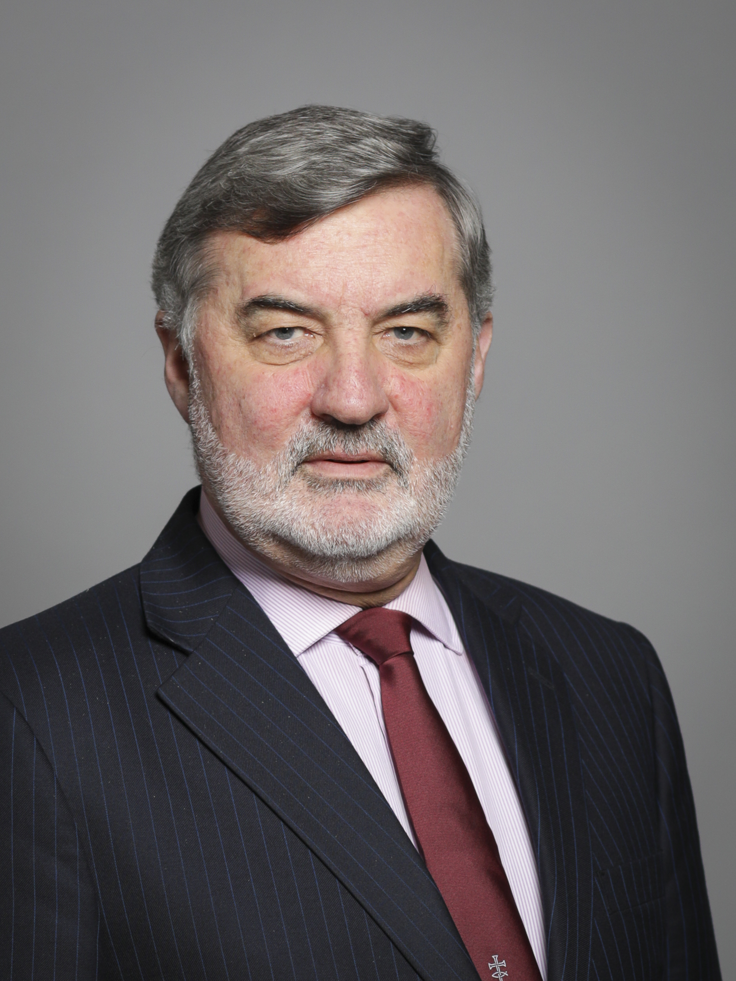 Official portrait of Lord Alderdice 3×4 portrait of Lord Alderdice